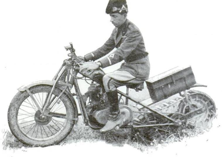 Experimental Italian semi-tracked tractor motorcicle during the military maneuvers near Rome.